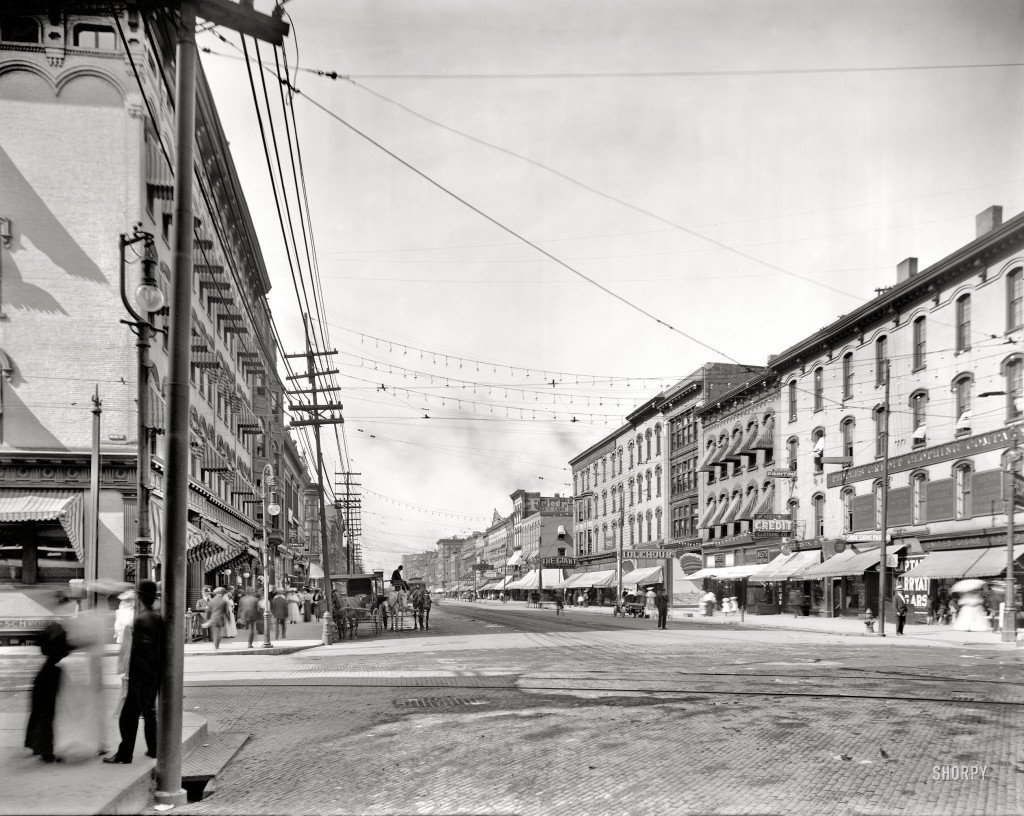 Grand Rapids, Michigan, circa 1908. “Canal Street from corner of Monroe.” Merchants vying for your trade include The Giant, Idlehour and People’s Credit Clothing Co